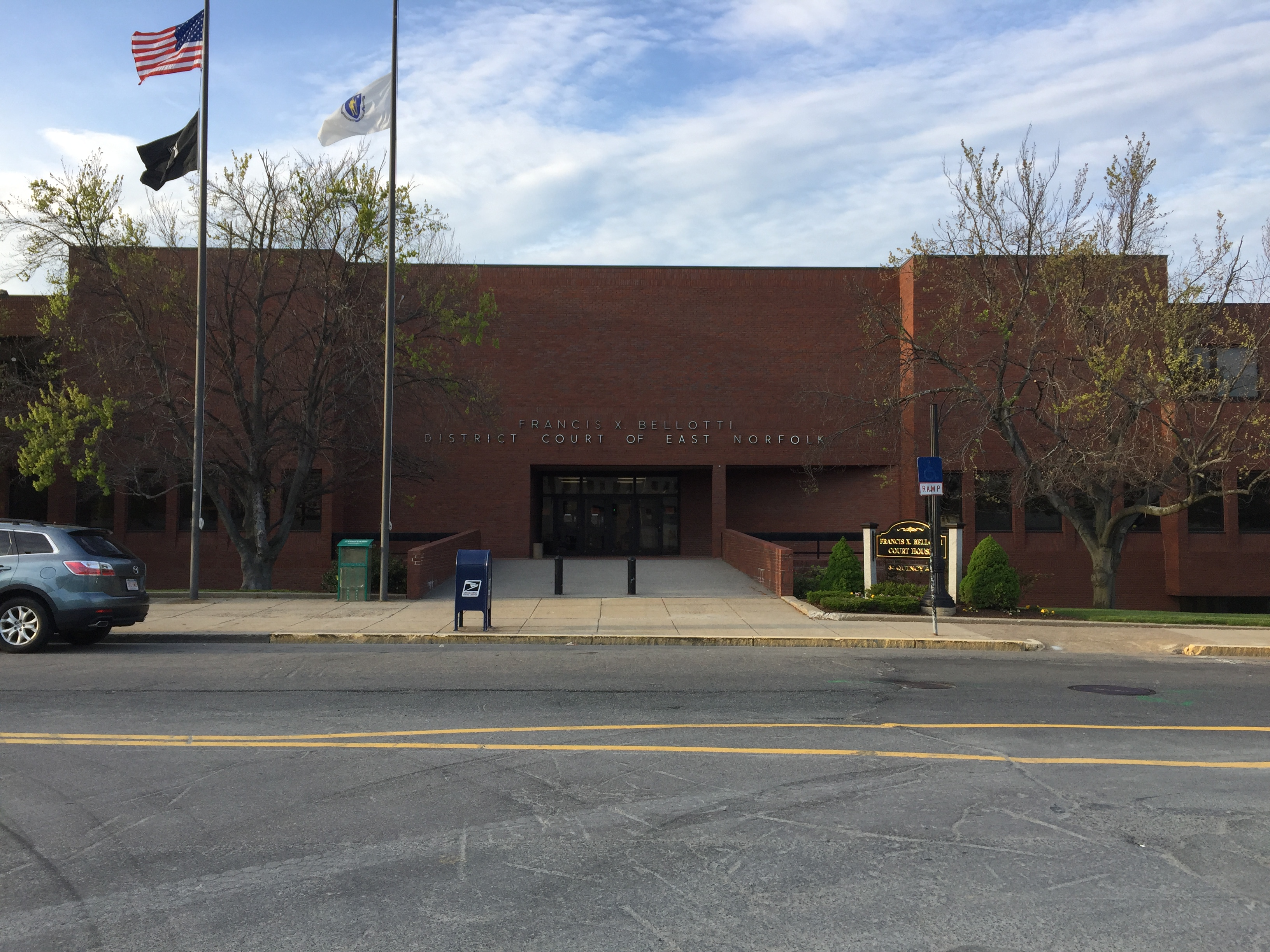 Francis X. Bellotti Courthouse in Quincy, Massachusetts in 2019